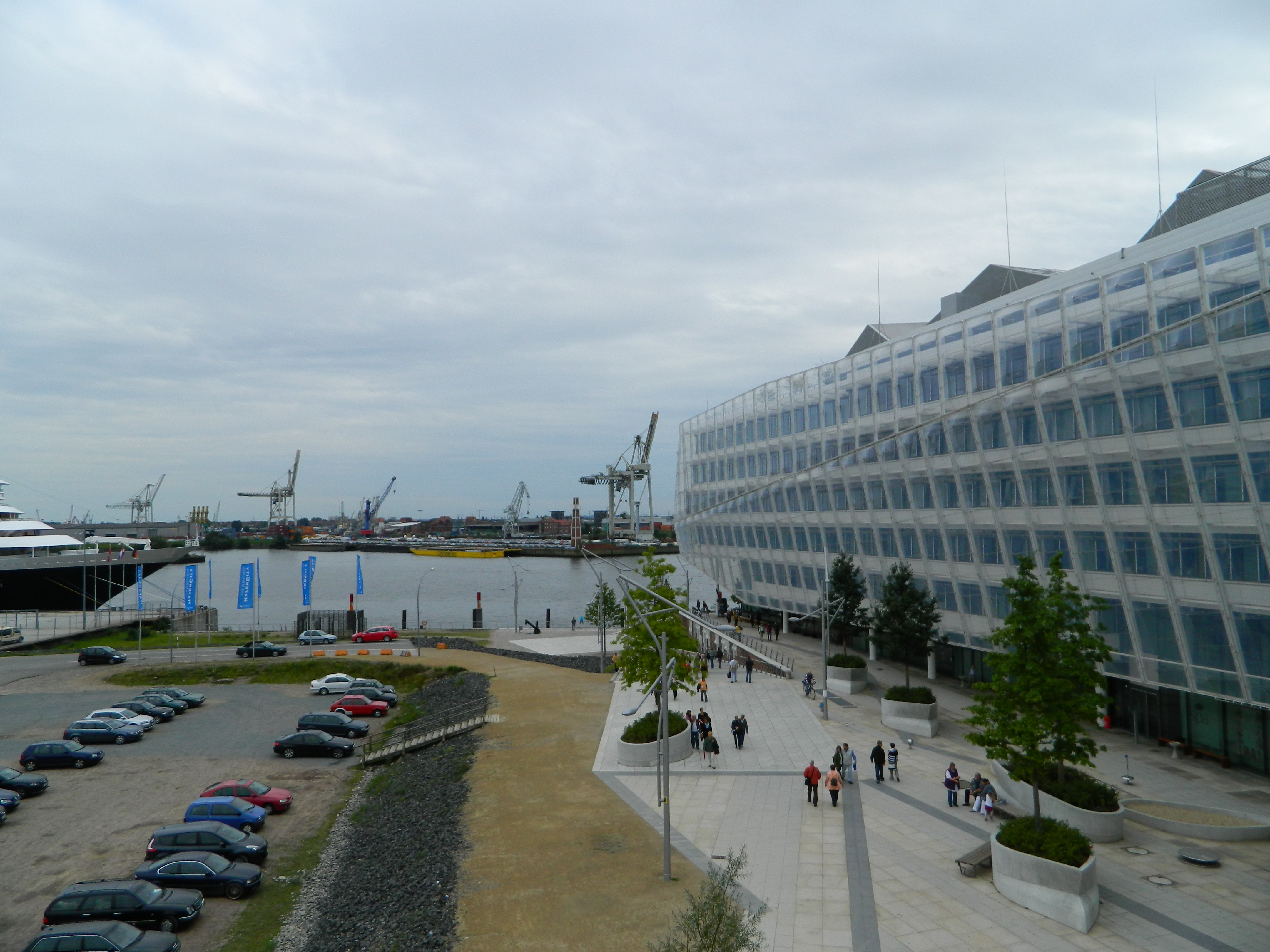 Hamburg. Unilever-Building